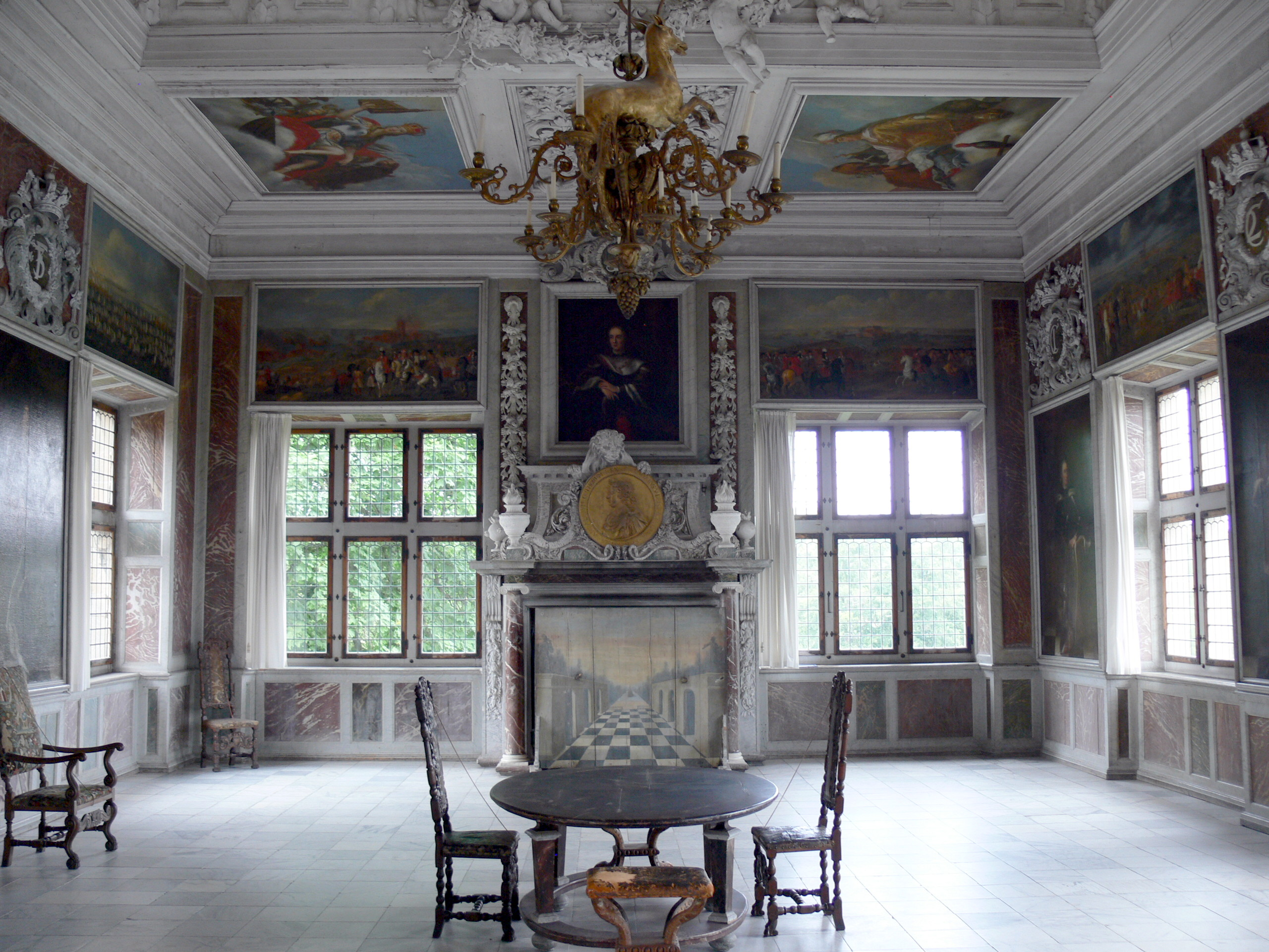 Frederiksborg castle. Audience chamber ( 1680s )